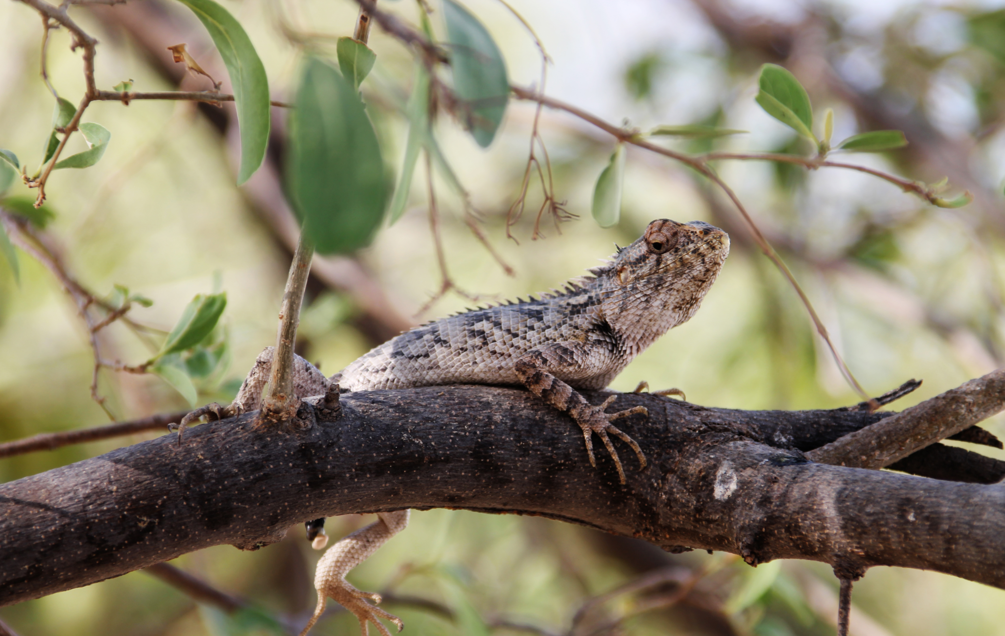 what a ghost like lizzard at Tharparkar desert (also called Thar desert)